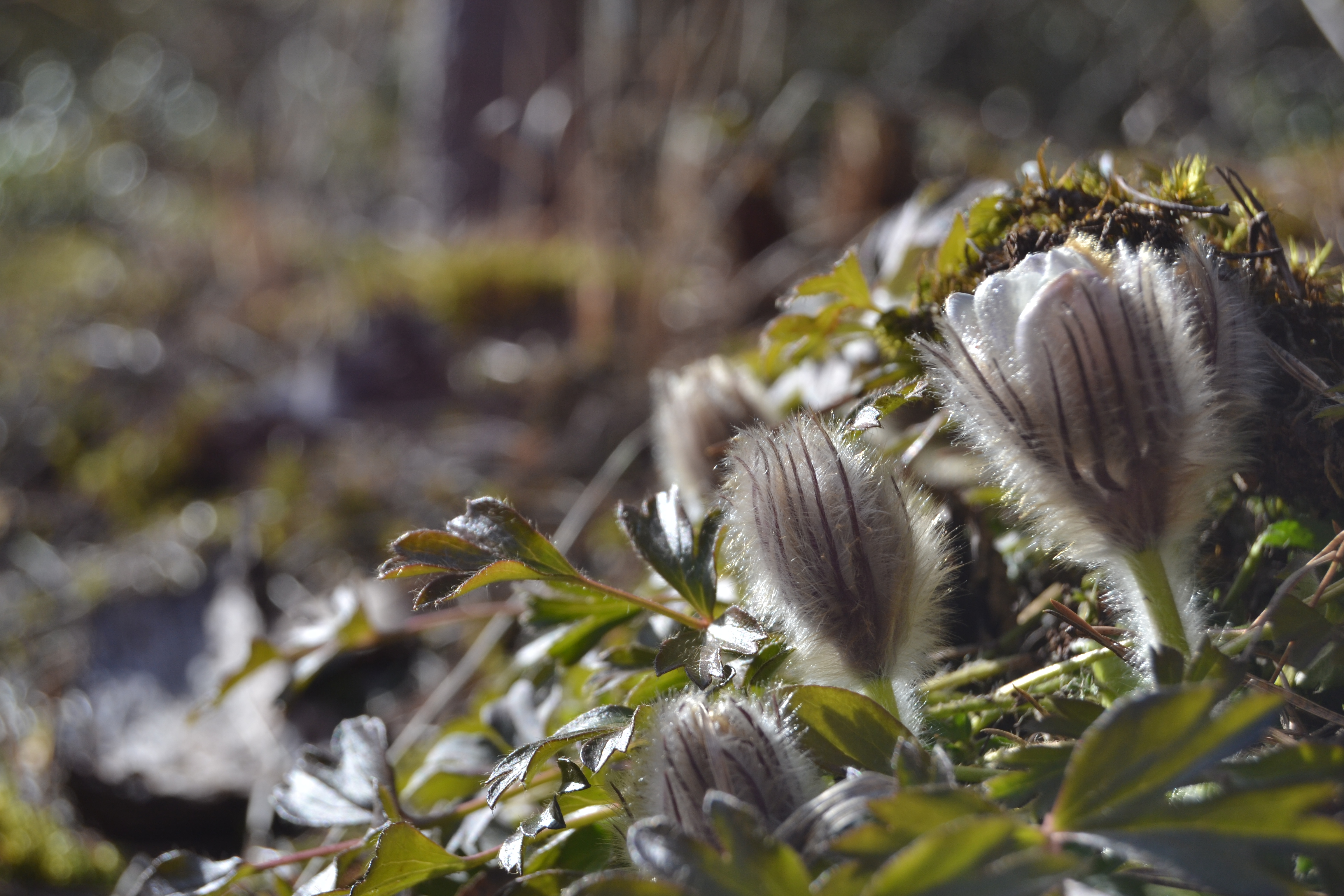 Spring Pasqueflower in Lappeenranta